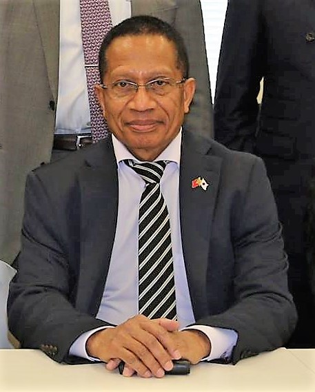 Tokyo, March 27, 2019 – Minister for Foreign Affairs and Cooperation (MoFAC), H.E. Mr. Dionísio Babo Soares, accompanied by Director General for Bilateral Affairs-MoFAC, Mr. Isílio Coelho, Timorese Ambassador in Japan, Mr. Filomeno Aleixo da Cruz, pay a courtesy visit to the President Member of Parliament Diet and Japanese Parliament working Group for Timor-Leste, Mr. Gen Nakatani. The purpose of the meeting is to discuss Japanese support to Timor-Leste through the cooperation in some important areas to Timor-Leste. Mr. Nakatani welcome the intention of the government of Timor-Leste of sending Timorese workers to work in Japan and requests the cooperation of the government of the two countries in implementing the program. Venue: meeting room of Japan National Parliament House, Tokyo-Japan